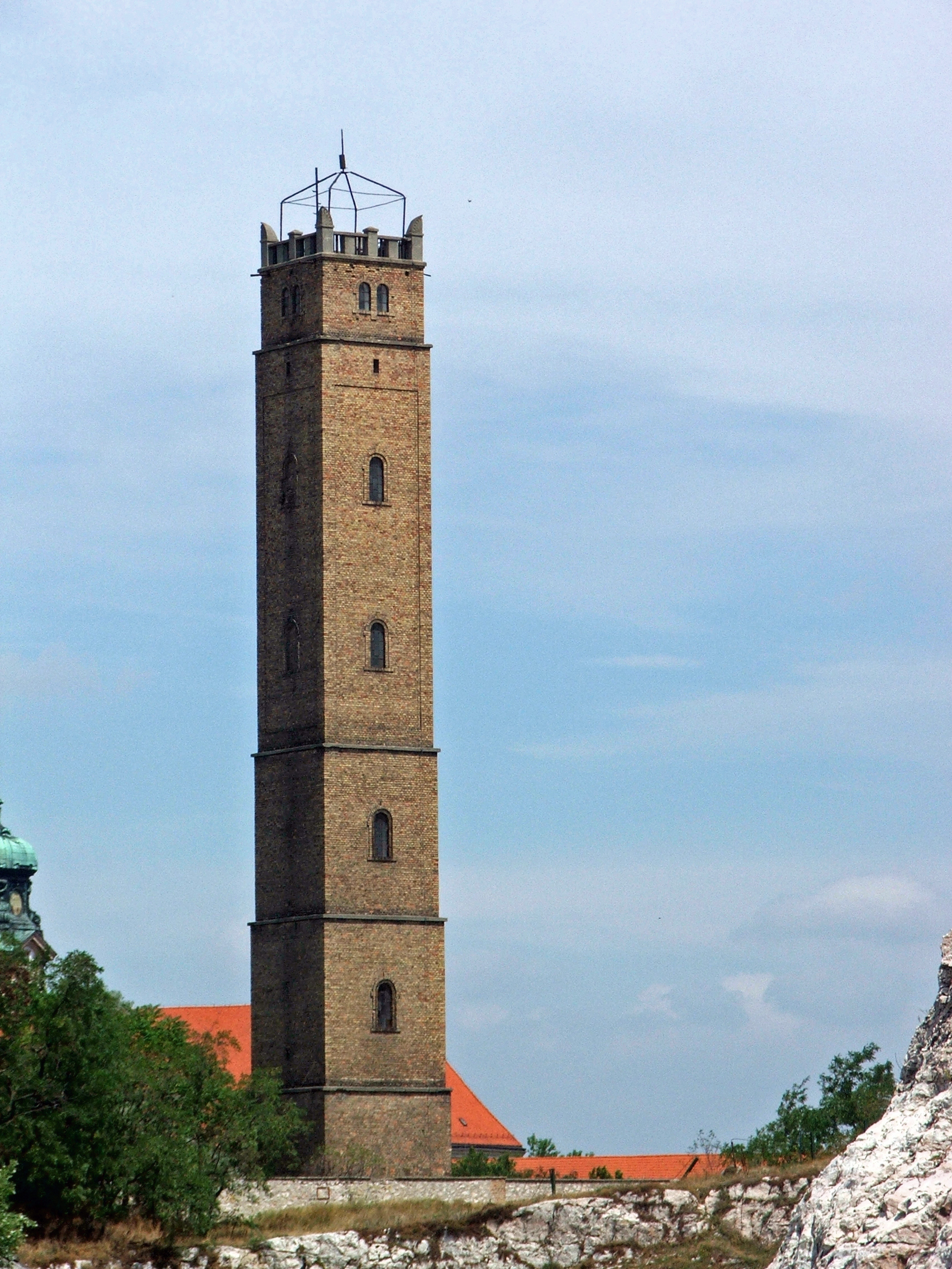 Lookout tower, Calvary Hill in Tata